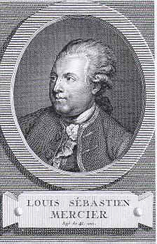 Portrait of Louis-Sébastien Mercier (1740-1814), French writer